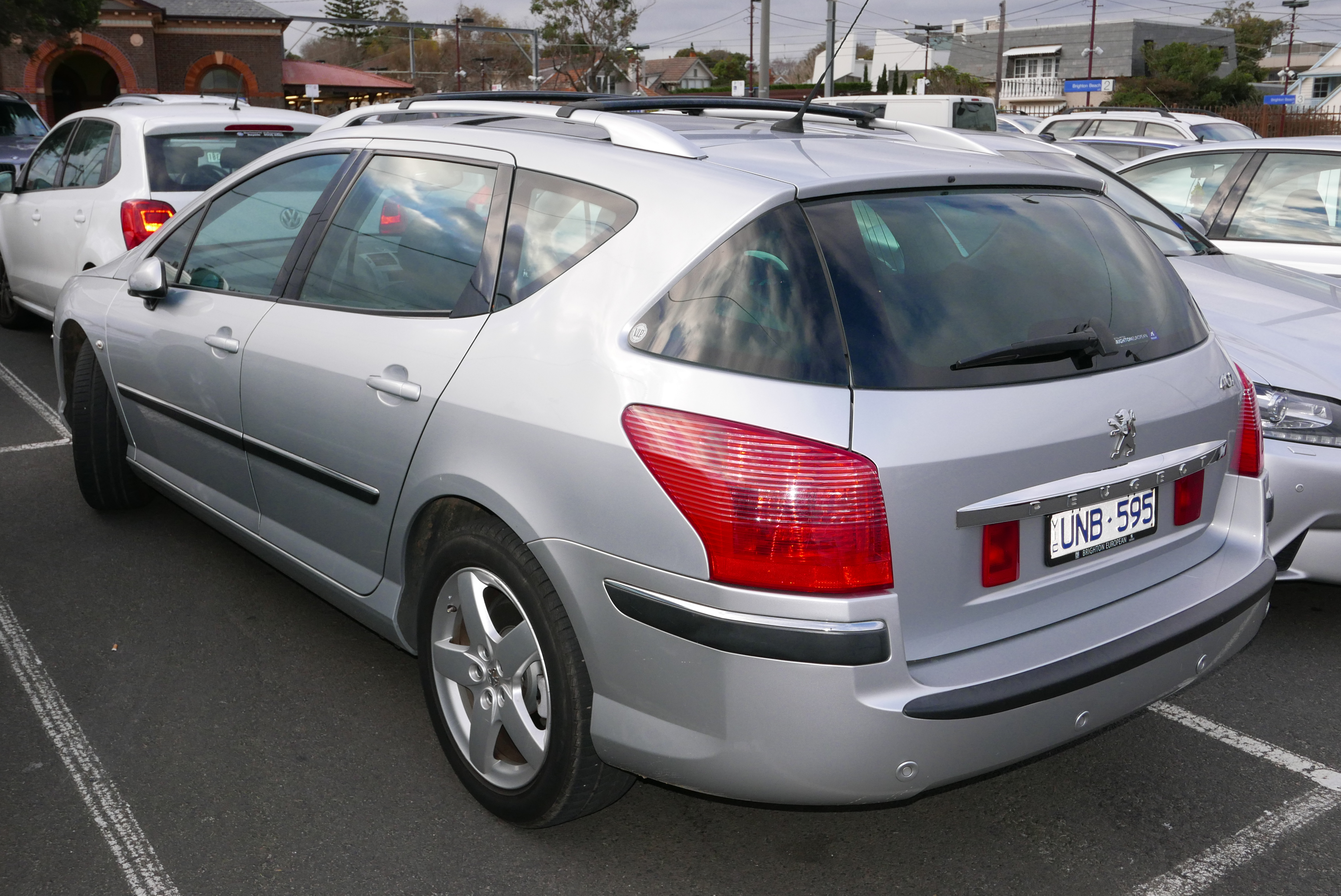 2006 Peugeot 407 ST Executive Touring station wagon. Photographed in Brighton, Victoria, Australia. Vehicle registration enquiry results Jurisdiction Victoria Registration UNB595 Chassis code VF36E3FZF21194035 Engine code LJ411236666 Compliance date 2006-03 Year of manufacture 2006